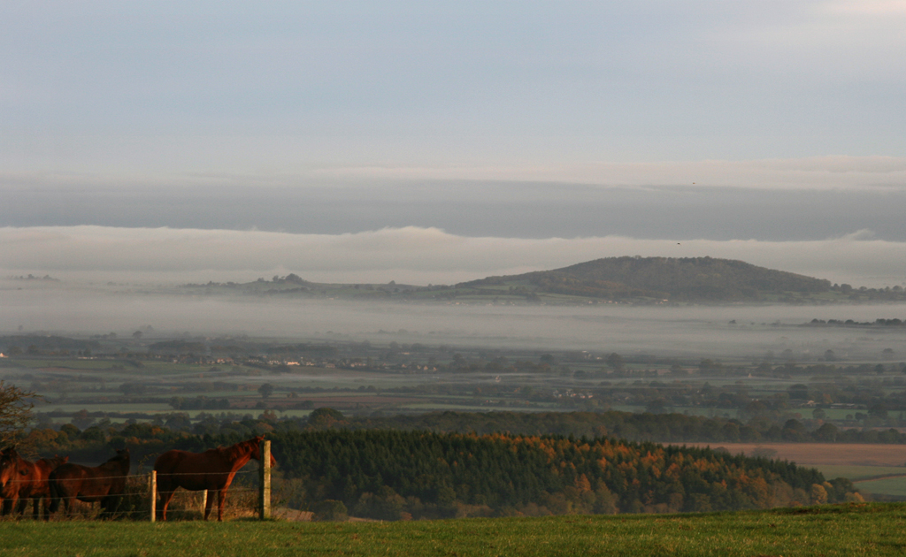 Duncliffe Hill showing up through the fog in the Blackmore Vale, Dorset, England, UK.